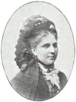 Finnish-Norwegian singer Ida Basilier-Magelssen. Image from "Svenskt porträttgalleri / XXI. Tonkonstnärer och sceniska artister (biografier af Adolf Lindgren & Nils Personne)"